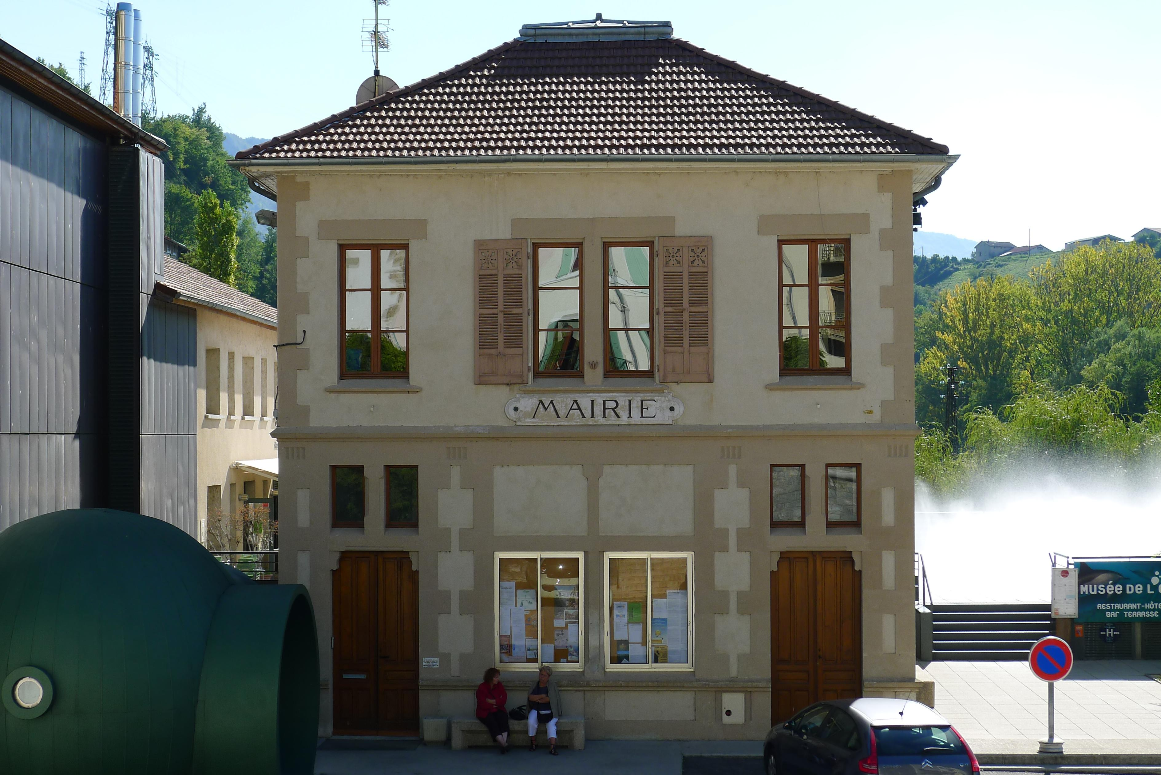 Town hall of Pont-en-Royans - Isère - France